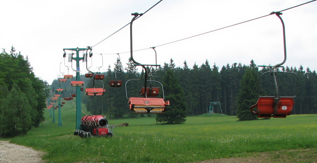 Ski lift in Ramzová, Jeseník, Czech republic